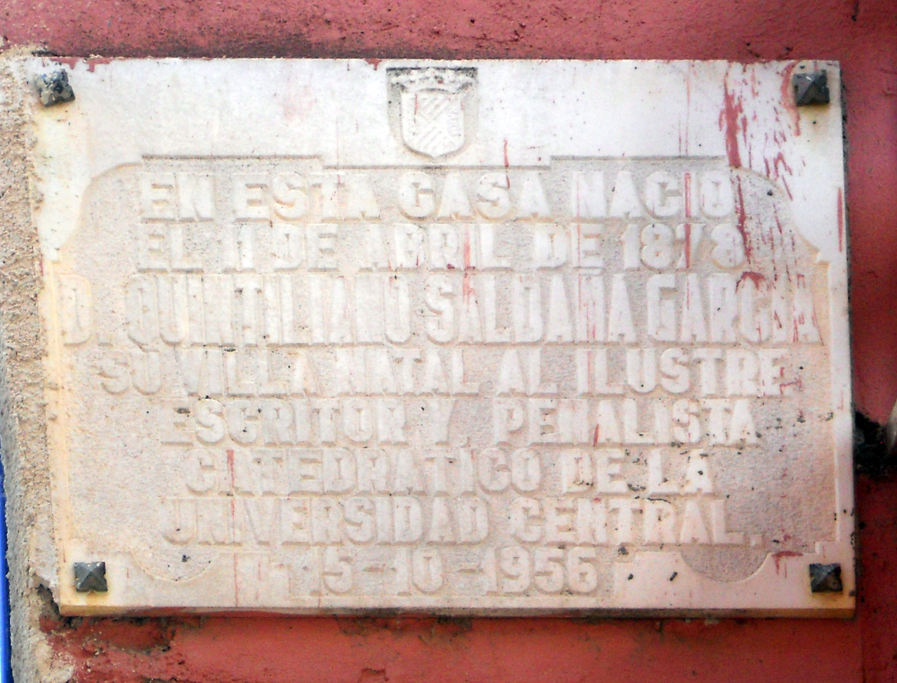 Commemorative plaque in the birthplace of Quinitiliano Saldaña García, born in 1878 in Saldaña (Palencia, Castile and León).